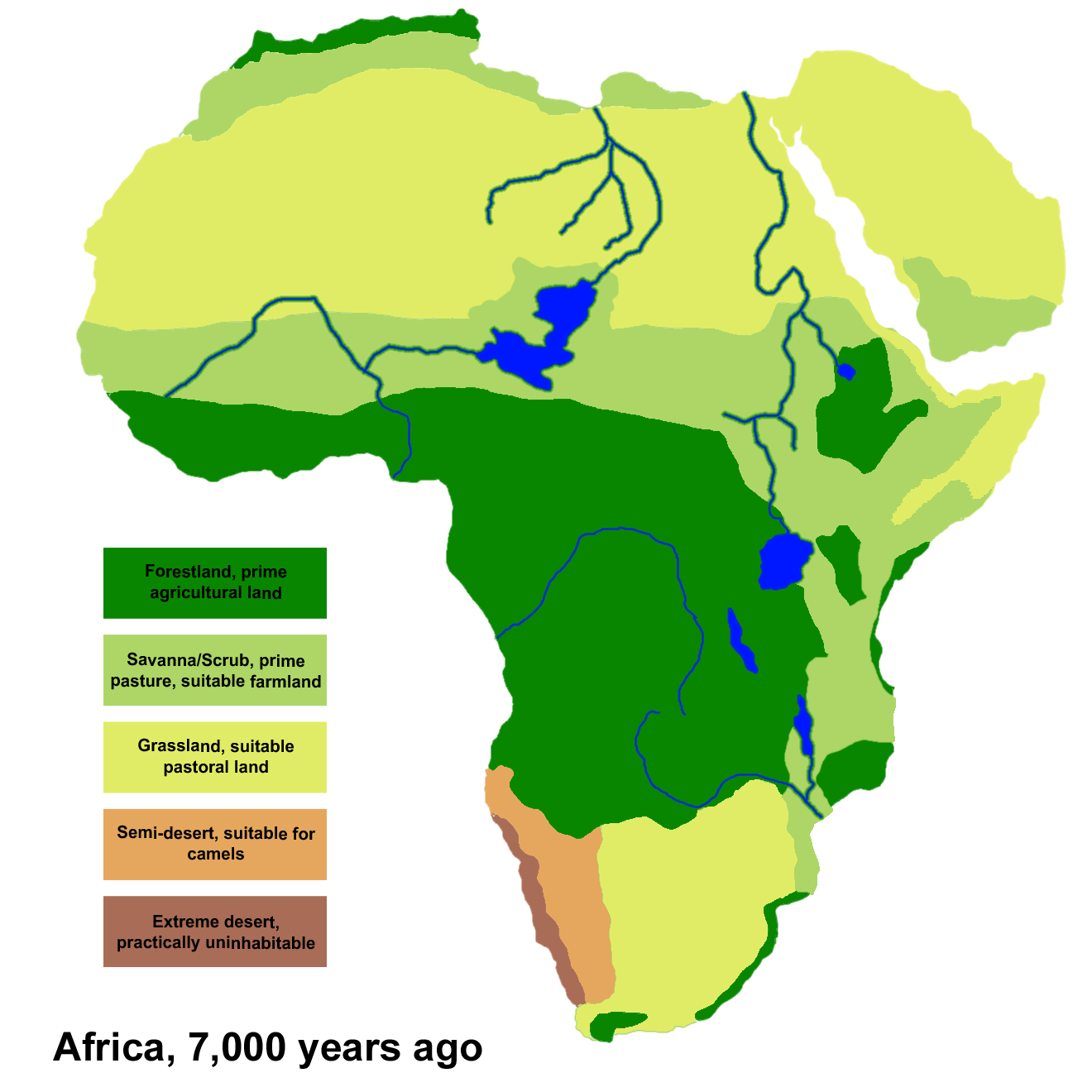 Climate areas based on data and maps from the Oak Ridge National Laboratory Paleovegetation project This map is of Africa circa 7,000 years before present, in the middle of the Holocene climatic optimum. Effectively, Africa in the "Atlantic Period".